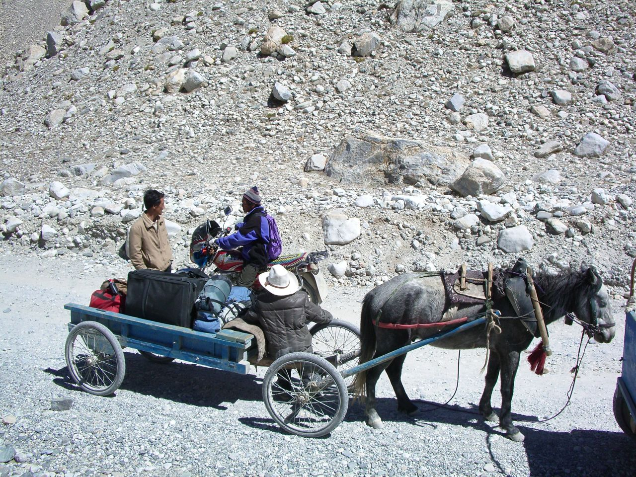 Trip to Tibet